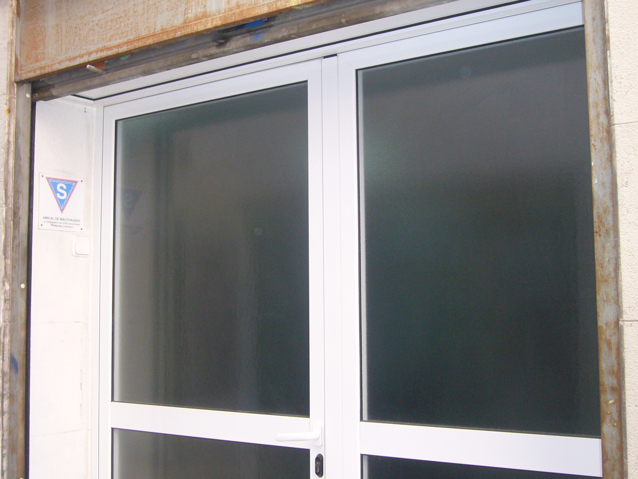 "Amical de Mauthausen" office in the Gothic quarter, Barcelona. Organization founded in 1962 by former prisoners of the Mauthausen concentration camp